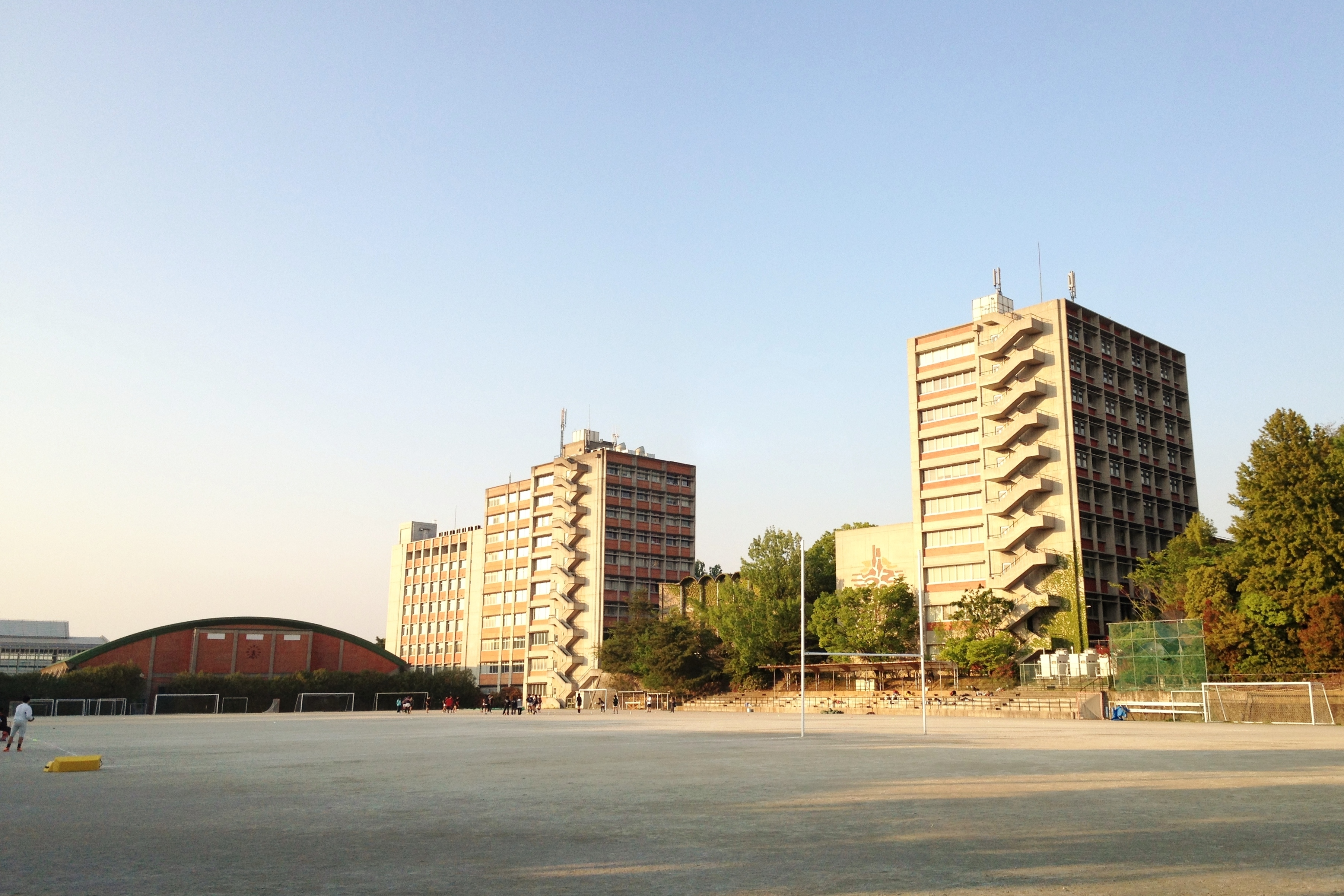 Sports ground on the campus of Nanzan University, Nagoya, central Japan.